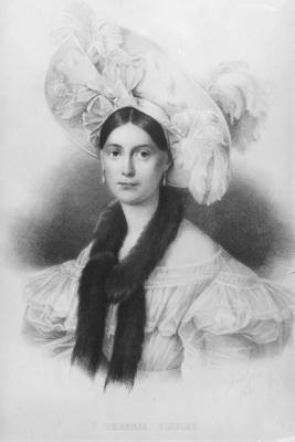 sister of Fanny Elssler